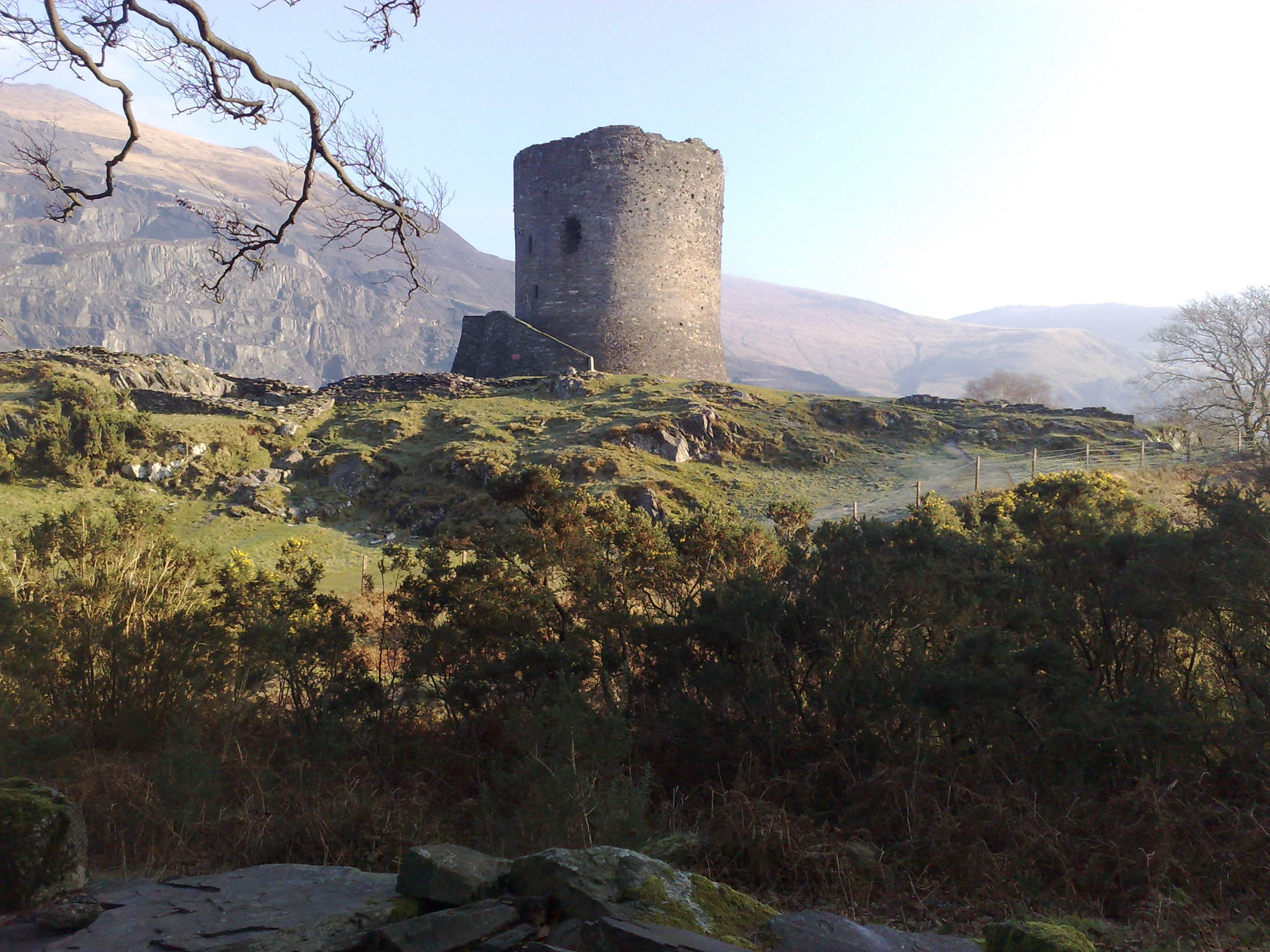 Dolbadarn Castle